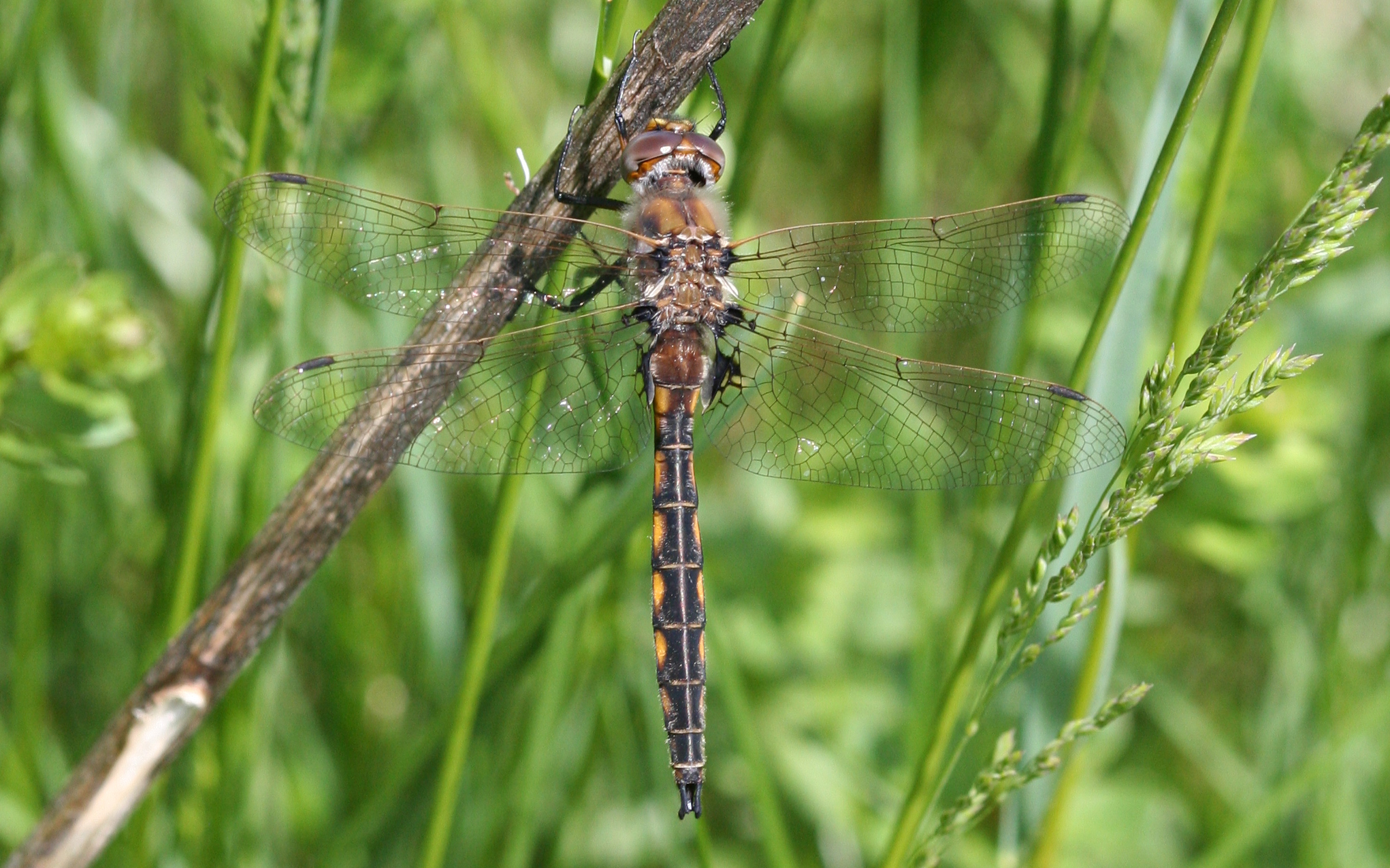 Anisoptera (Dragonfly), Epitheca cynosura (Common baskettail), male, photographed in the Town of Skaneateles, Onondaga County, New York.